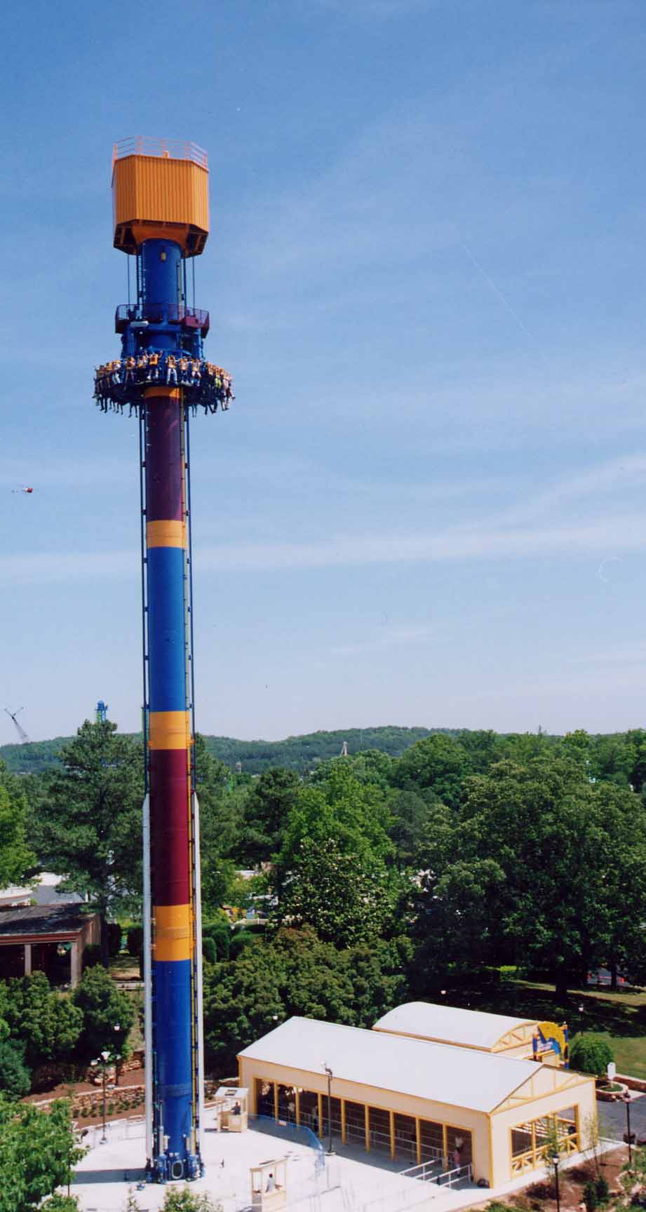 Acrophobia at Six Flags Over Georgia